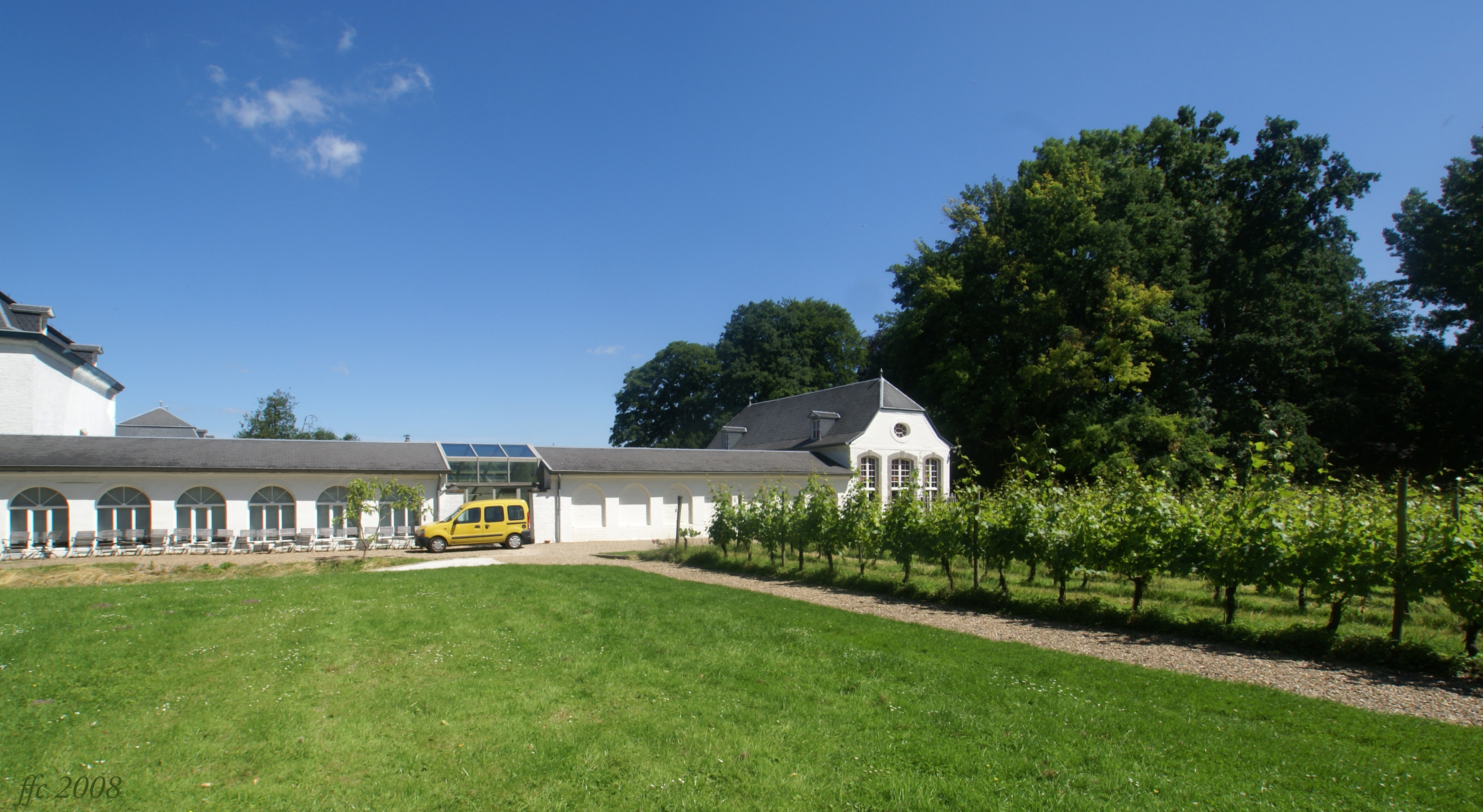 Genoelselderen (Belgium): Orangerie and wineyard of Elderen Hall